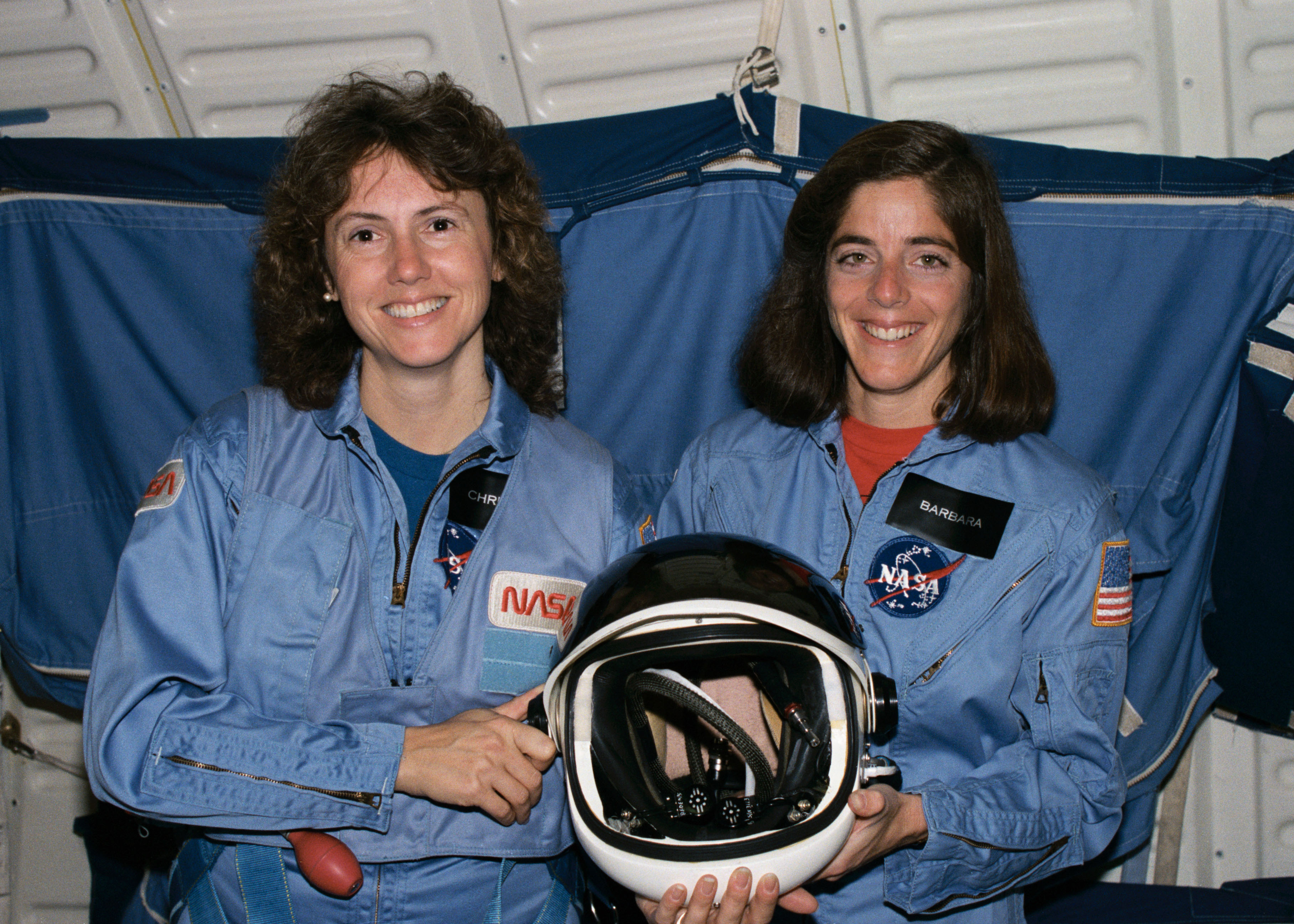 NASA Photo ID: S85-46205File Name: Film Type: 35mmDate Taken: December 17, 1985 Title: Christa McAuliffe and Barbara Morgan named Teacher in Space Participants Description: Sharon Christa McAuliffe (left), from Concord, New Hampshire and Barbara R. Morgan of McCall, Idaho, have been named Teacher in Space Participants. They are posing in Space Shuttle mission simulator (SMS), wearing the blue shuttle flight suits and holding a helmet between them. Subject terms: PAYLOAD SPECIALISTS PORTRAIT PUBLIC RELATIONS SPACE SHUTTLE MISSION 51-L